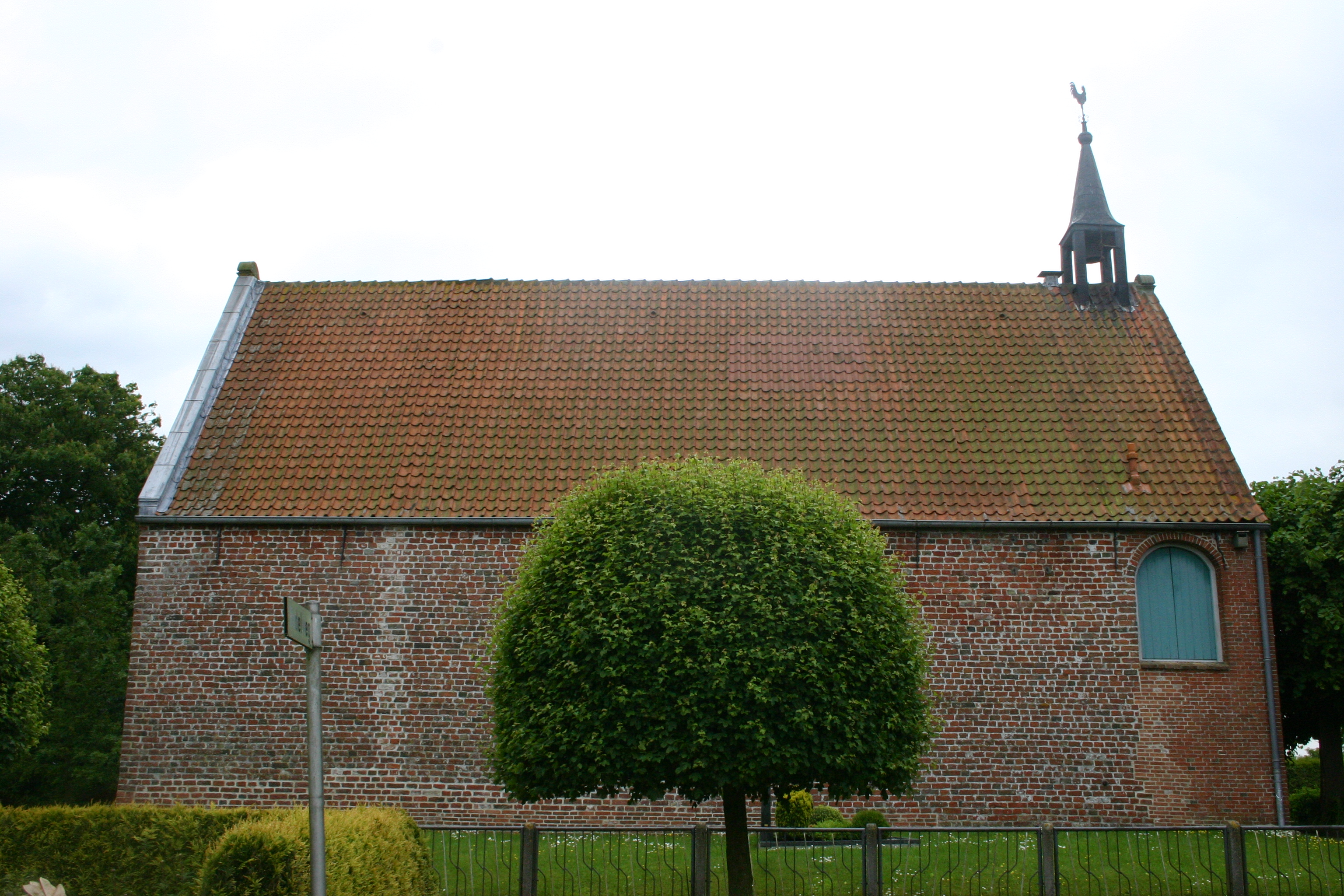 Historic church in Cirkwehrum, district of Aurich, East Frisia, Germany